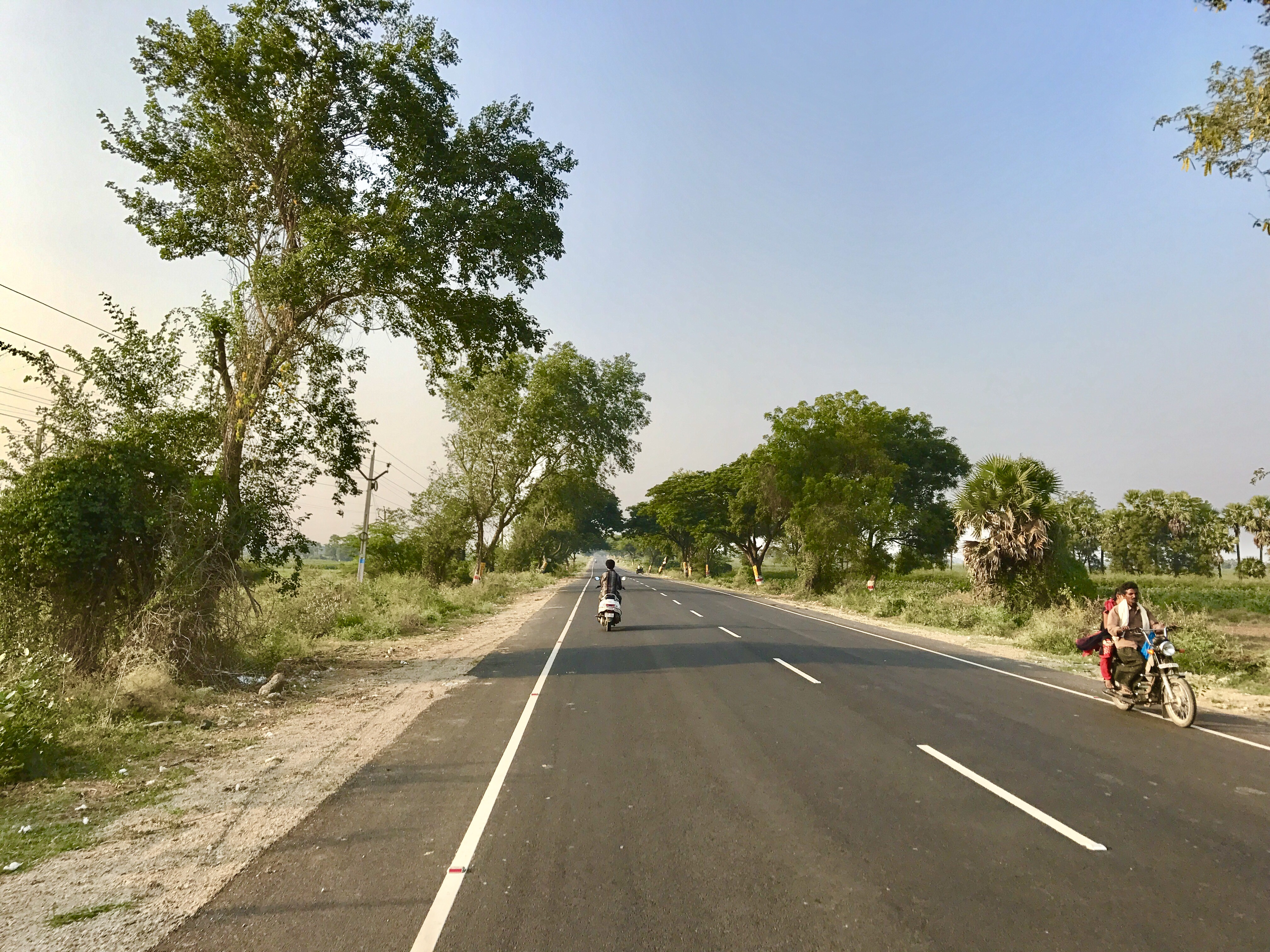 Amaravathi Road near Lemalle